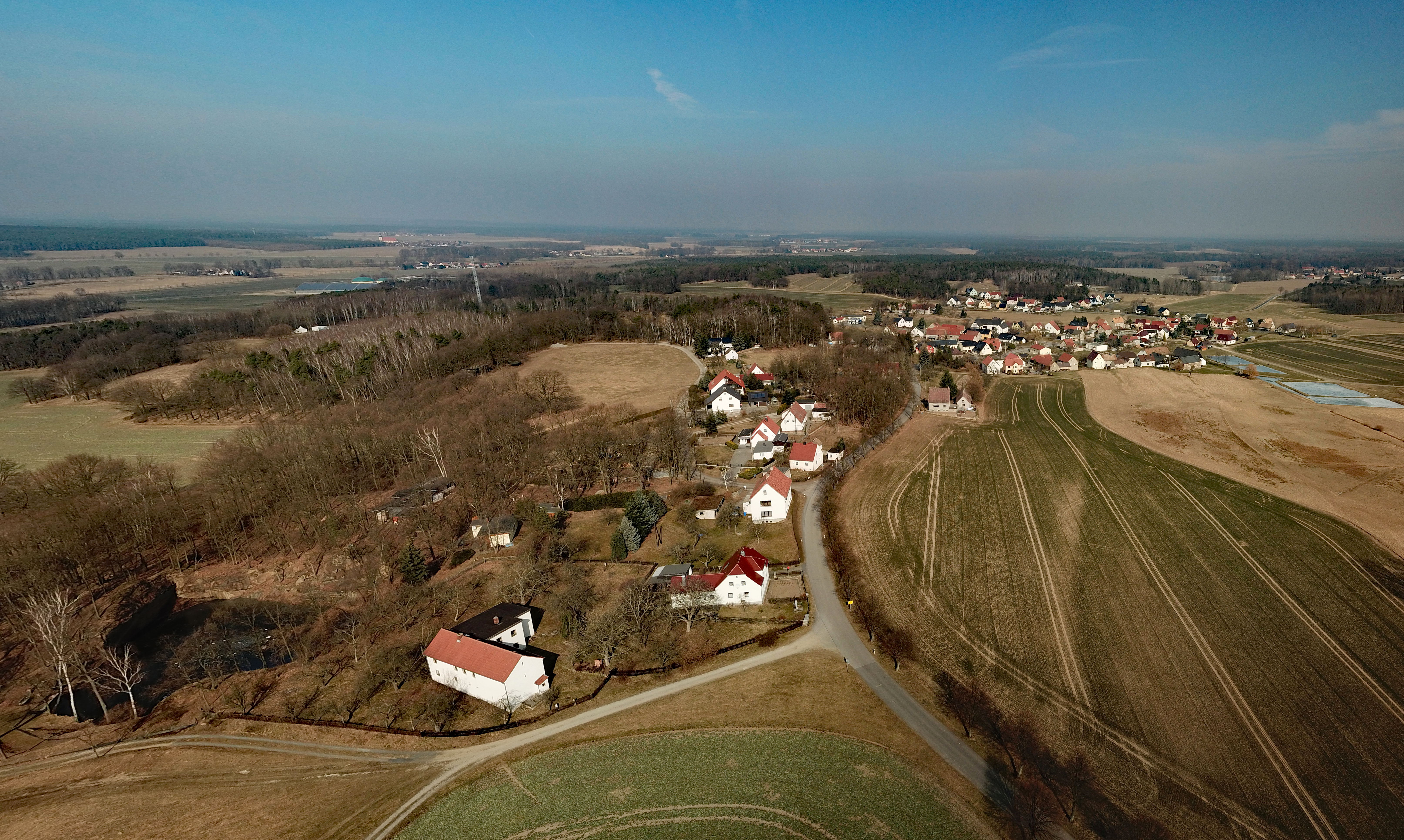 Horka (Crostwitz, Saxony, Germany) Hornjoserbsce: Powětrowy wobraz Hórkow